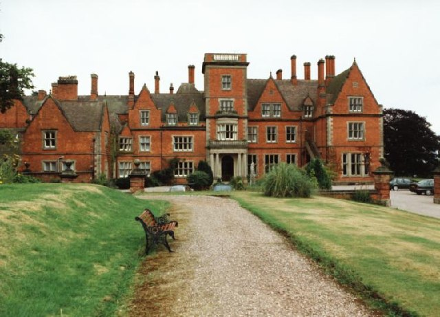 Cheswardine Hall. Charles Donaldson-Hudson originally had the house built in 1875 according to a design by John MacVicar Anderson. This replaced an earlier partially built house, known as The Hill, Chipnall, that had been purchased by Thomas Hudson, (the great uncle of Charles Donaldson-Hudson) with the Cheswardine Estate circa 1833 In 1950 it was bought by the de La Mennais Brothers, a teaching order from Brittany, who used it as their Juniorate for teaching boys who wanted to become members of their order. In the late 1960's it was used as an approved school by Mr & Mrs Brunt. It is now an residential and nursing home owned by the Poole family.